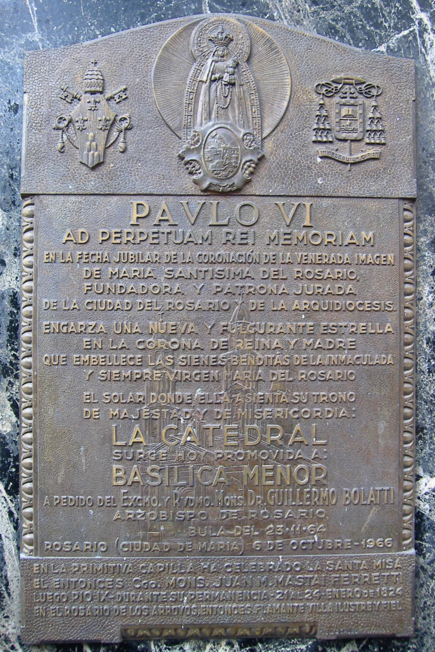 A plaque thanking Pope Paul VI for promoting the Cathedral of Rosario, Argentina, to Minor Basilica.